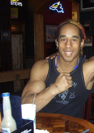 Lateef Crowder Dos Santos